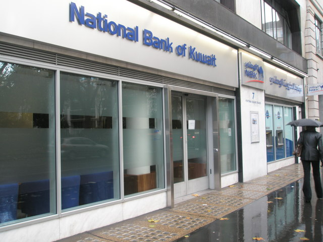 National Bank of Kuwait in Baker Street